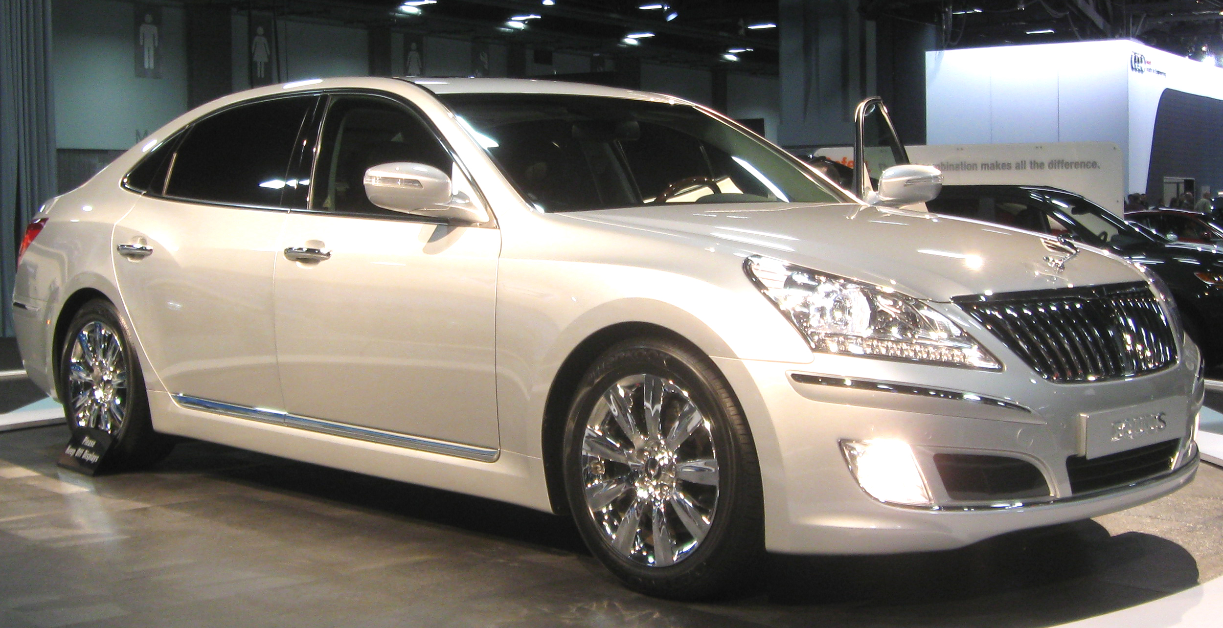 Hyundai Equus photographed at the 2010 Washington Auto Show.